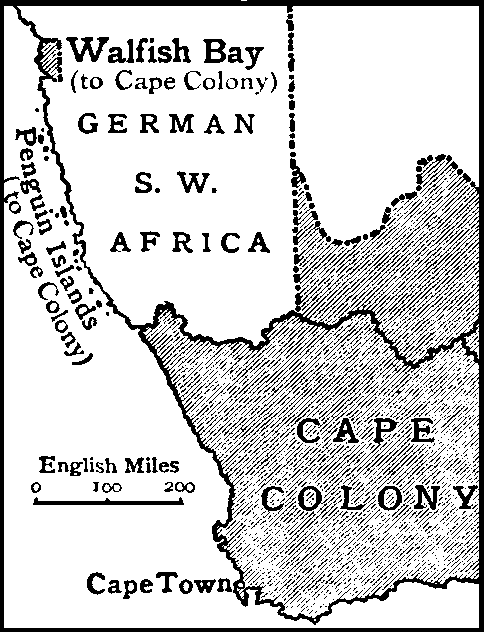 Map of the Cape Colony, with Walvis Bay and the Penguin Islands.